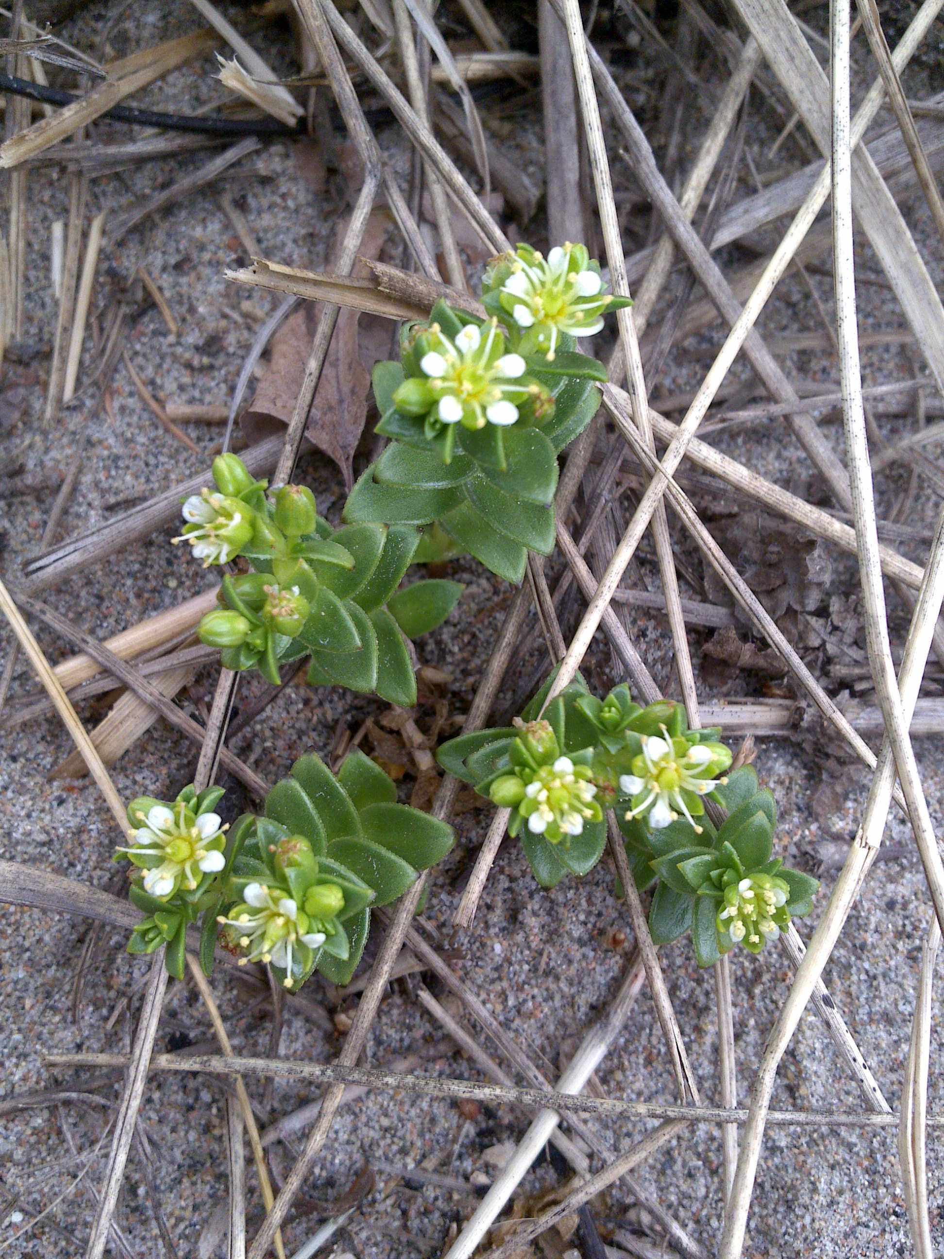 Honkenya peploides ssp peploides. Ersvika, Hurum, Norway.